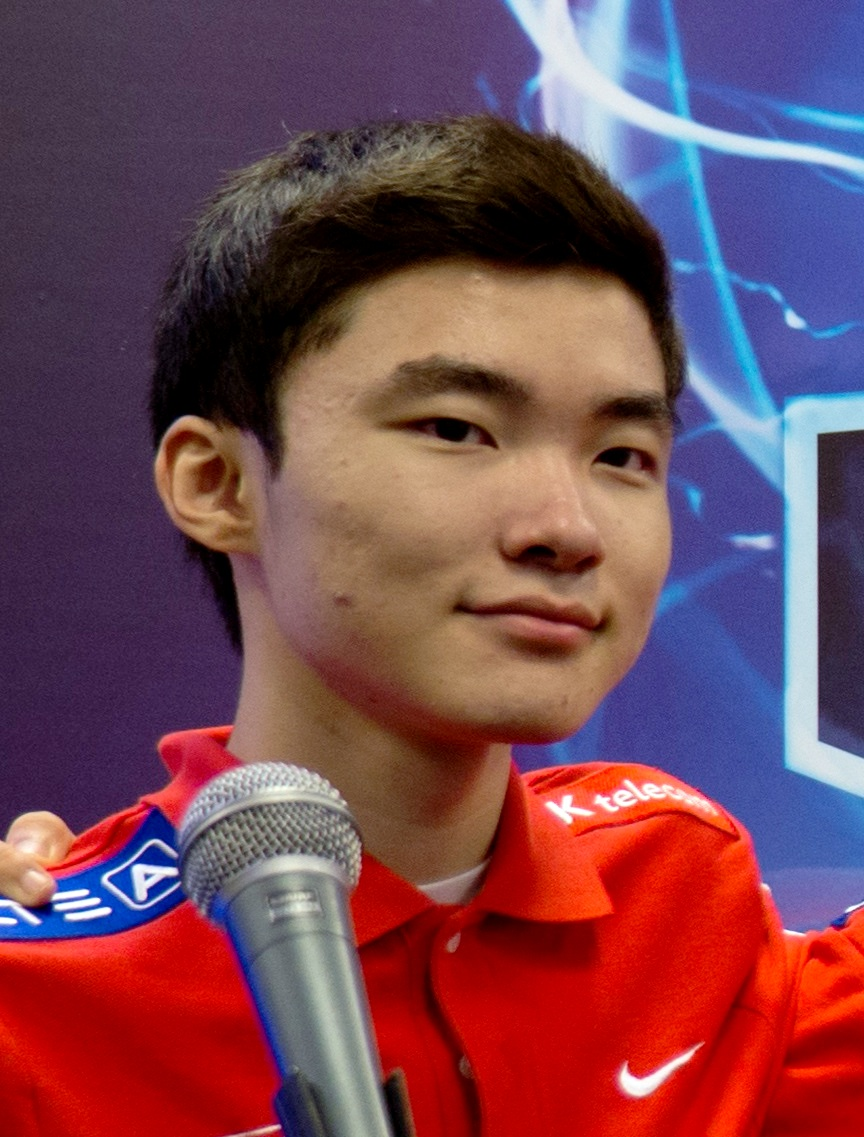 League of Legends player Faker (Lee Sang-hyeok) at the League of Legends World Championship